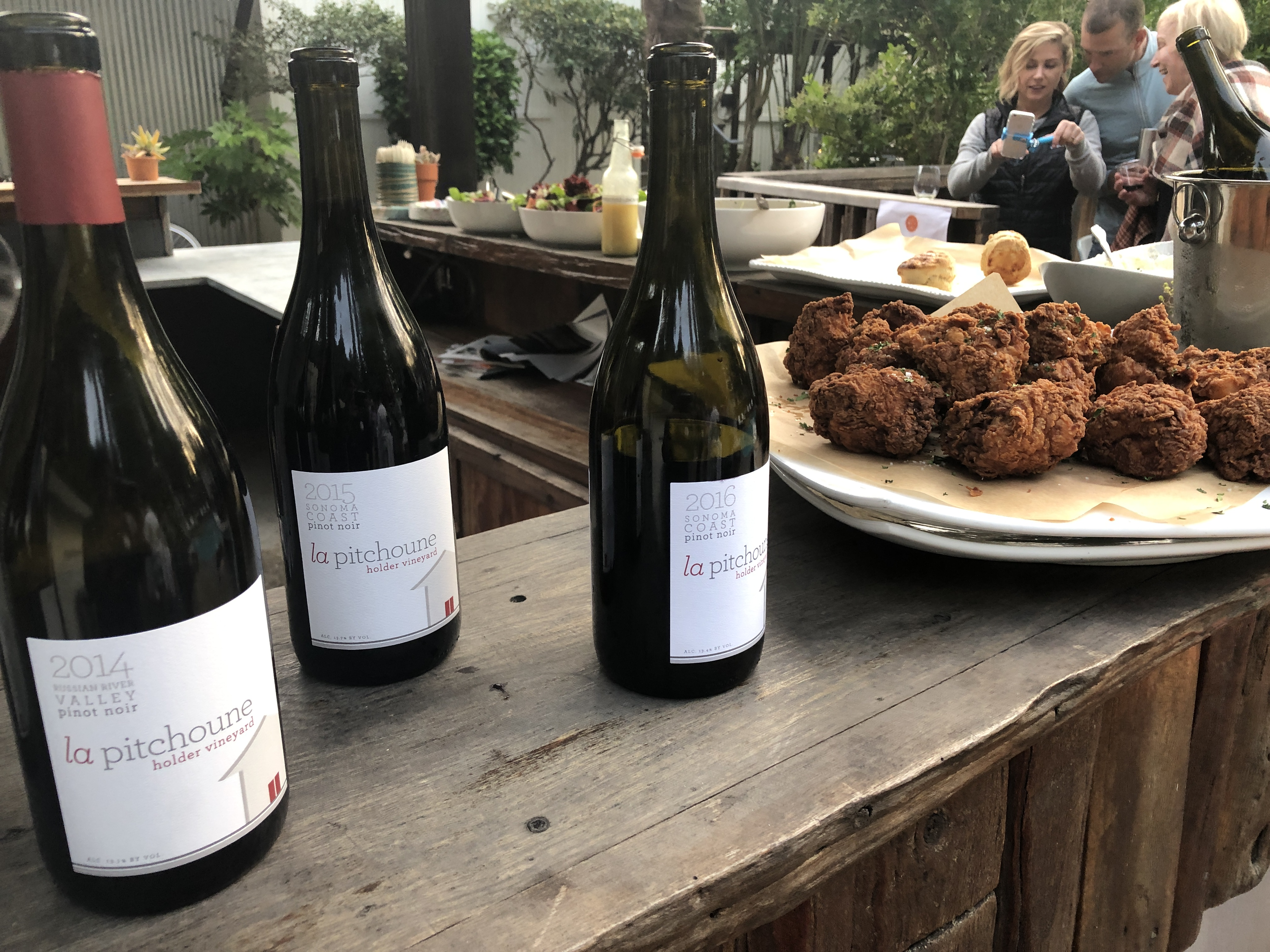 Bottles of Pinot Noir and fried chicken at La Pitchoune Key Club Weekend at Boon Hotel + Spa.